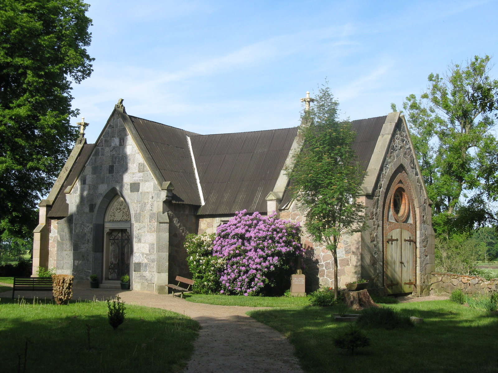 Grave chapel of Bülow family on the churchyard in Marsow, district Ludwigslust-Parchim, Mecklenburg-Vorpommern, Germany